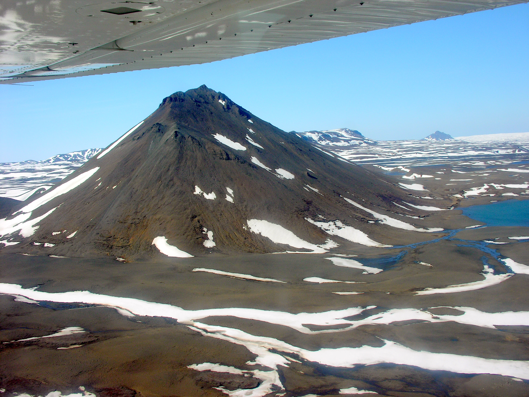 Aerial View of Jörundur